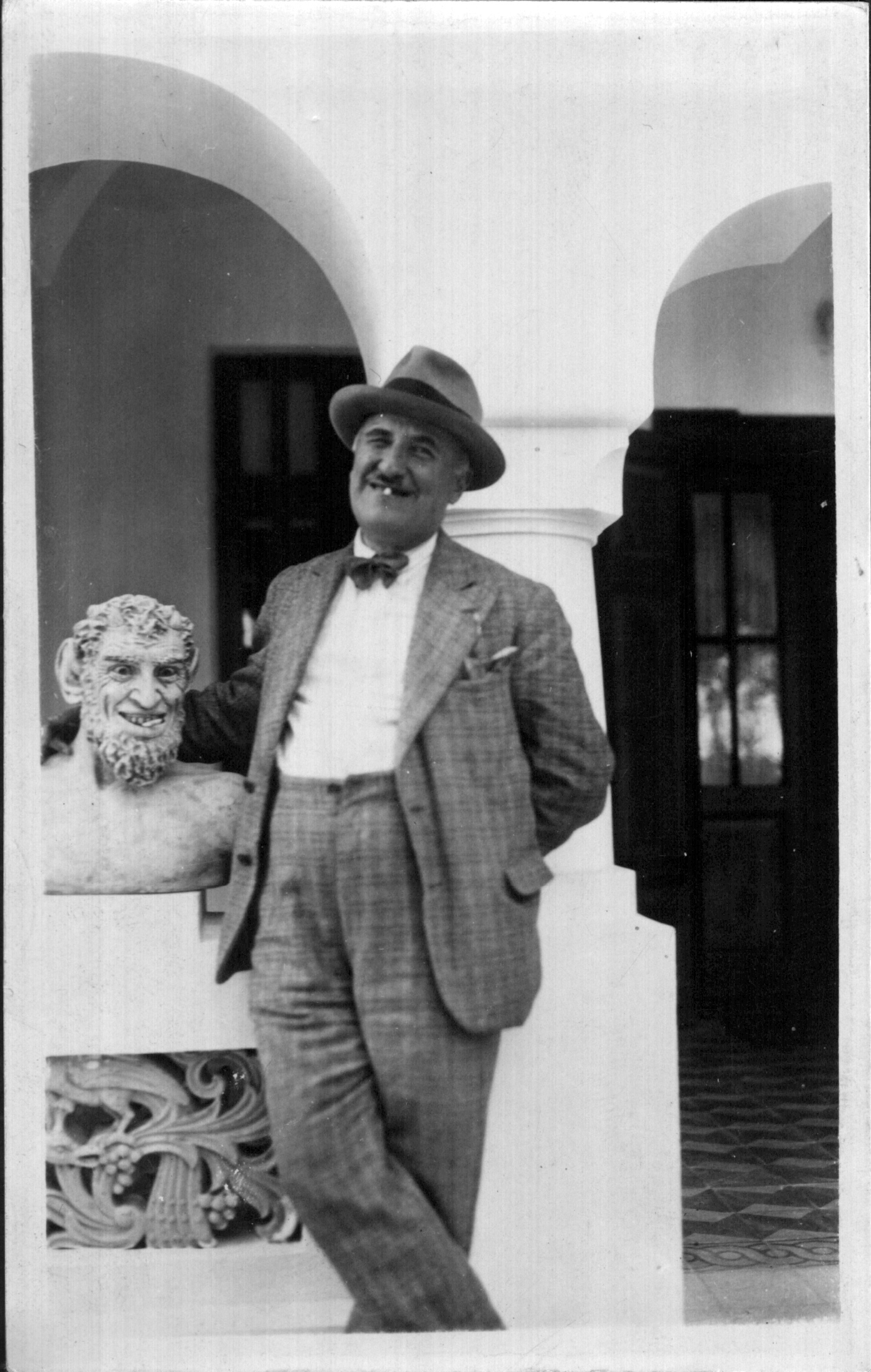 Ion Ionescu-Quintus, Lawyer, politician and art collector in the manor of Toma T. Socolescu in Pauleşti, Judeţul Prahova, Romania. This building has not been created by Toma T. Socolescu. It is today (20/10/2009) the property of the Toma T. Socolescu family We are the only heirs and descendants of Toma T. Socolescu (died in 1960 in Bucharest) and therefore owner of all his intellectual rights.